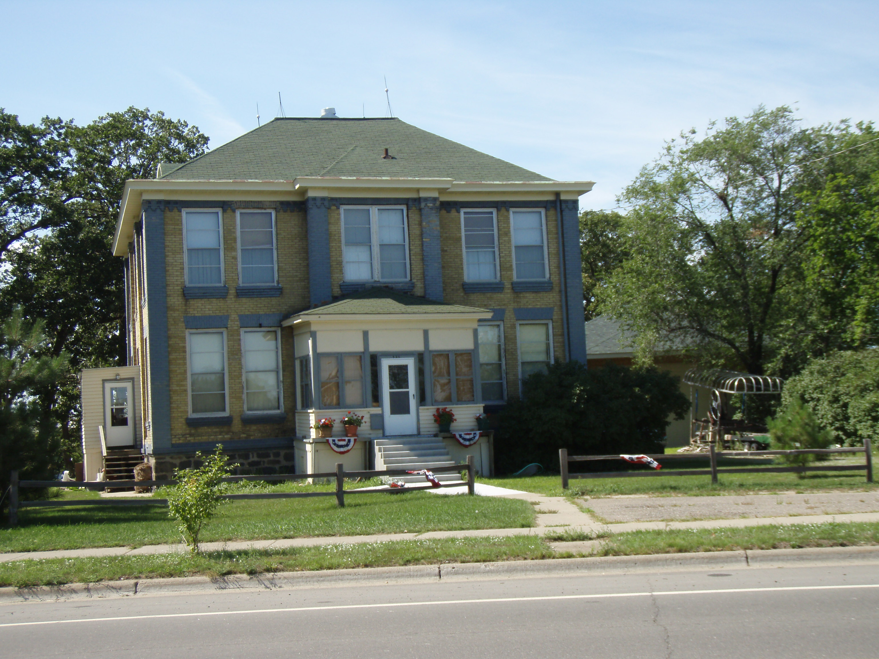 Pine Tree Lumber Company Office Building in Little Falls, Minnesota, listed on the National Register of Historic Places.